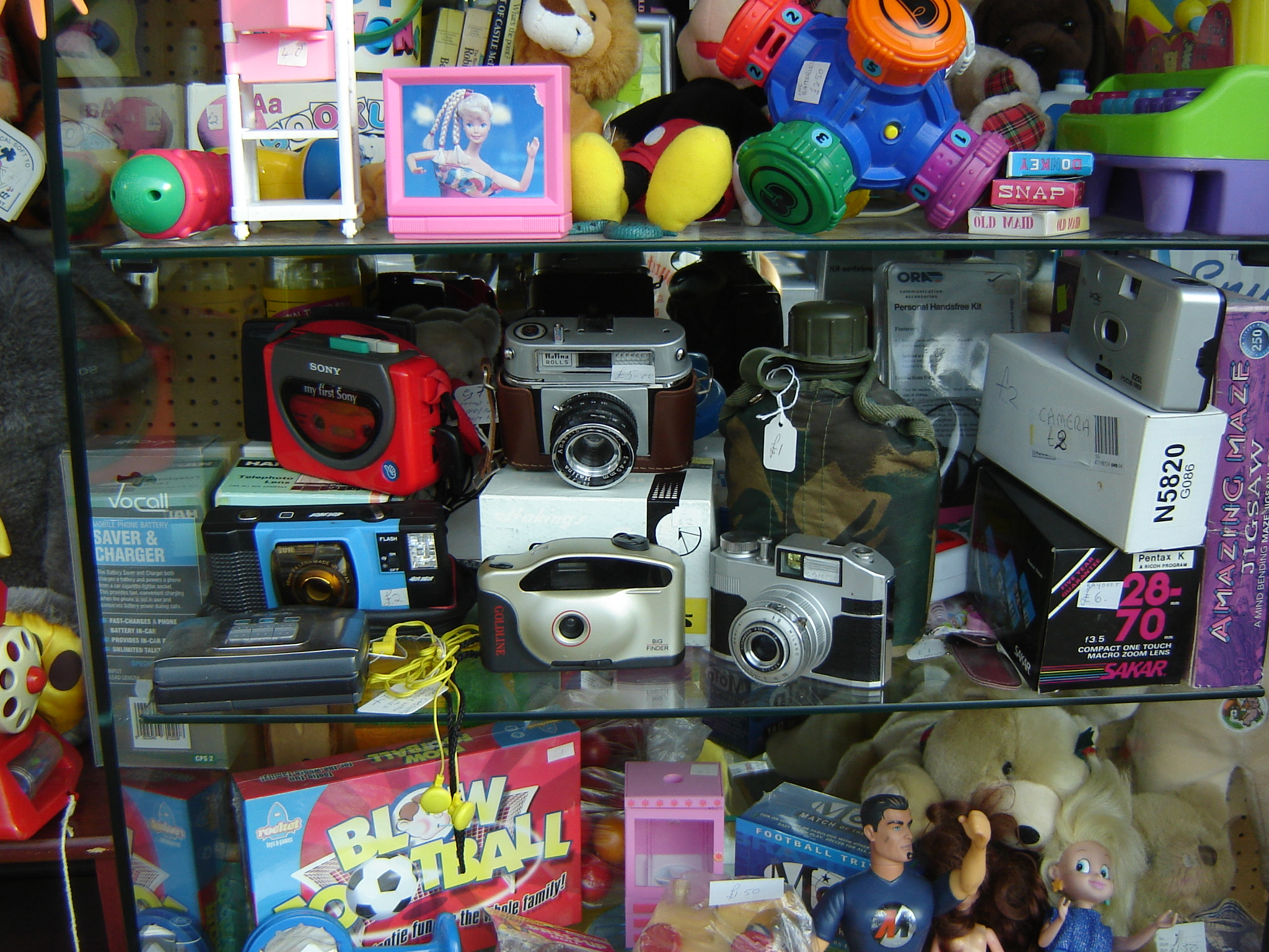 Display in the window of a well-established charity shop in Epping, Essex UK